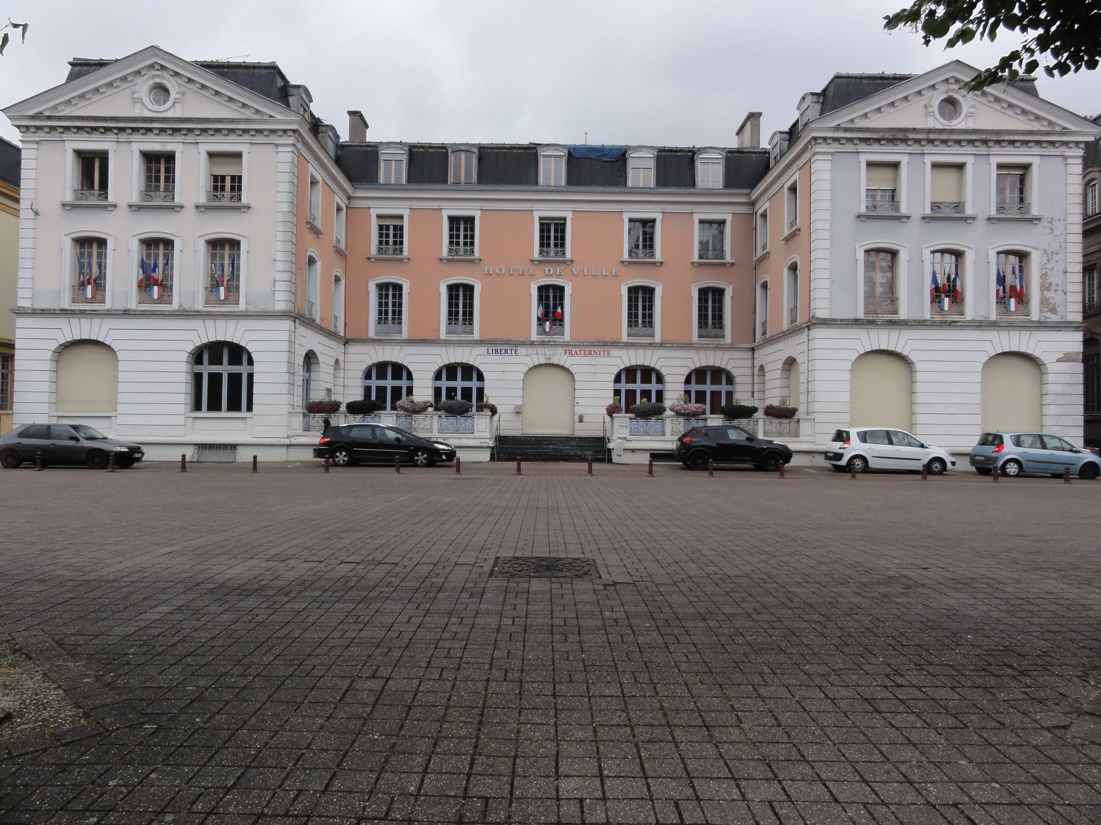 Longwy (Meurthe-et-M.) Hôtel de Ville